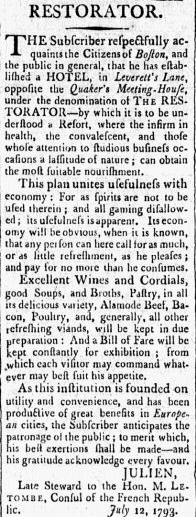 Newspaper item related to Julien's Restorator, Boston, Massachusetts